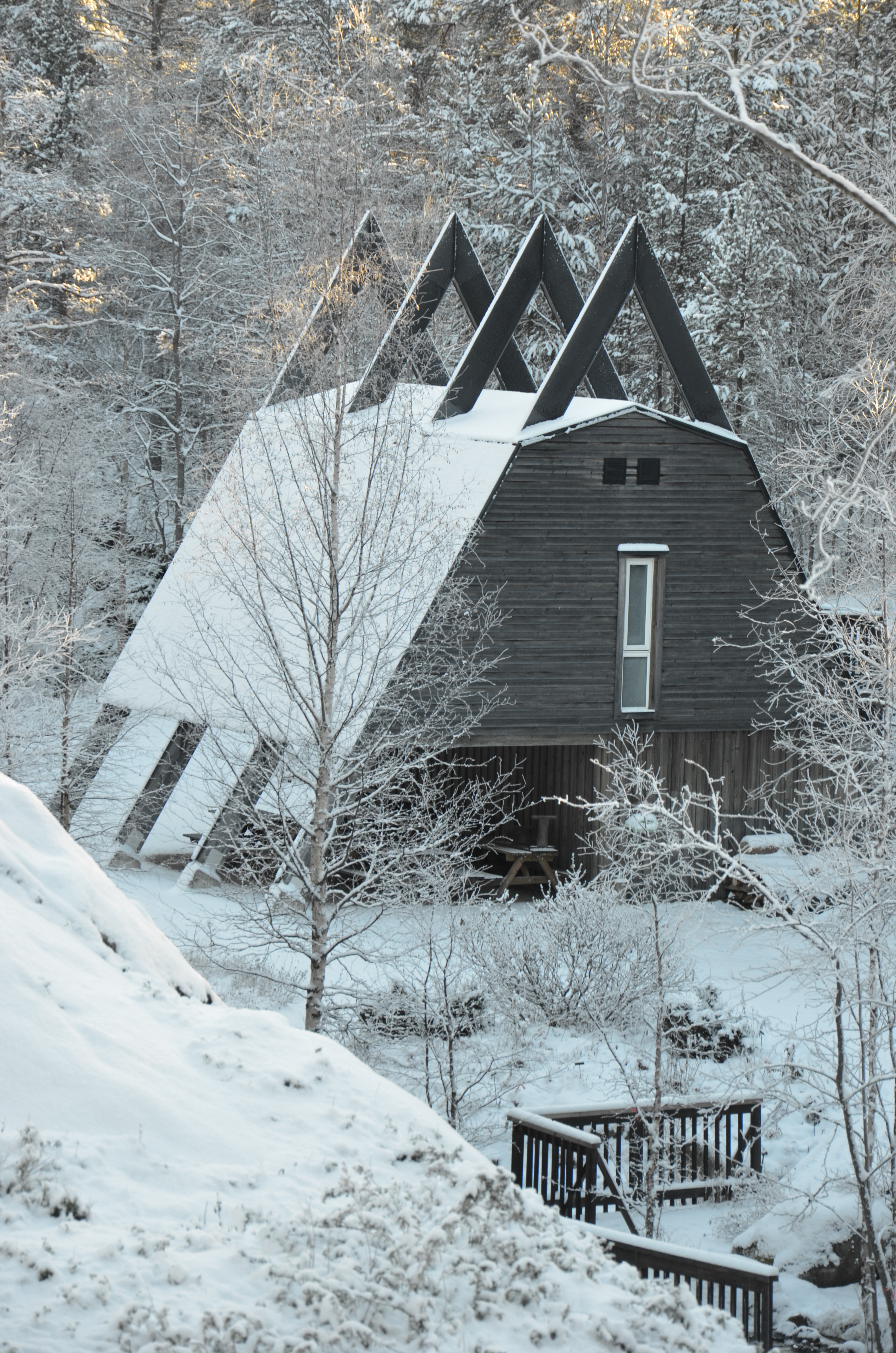 Informationsbyggnaden i Jokkmokks fjällträdgård, Ajtte